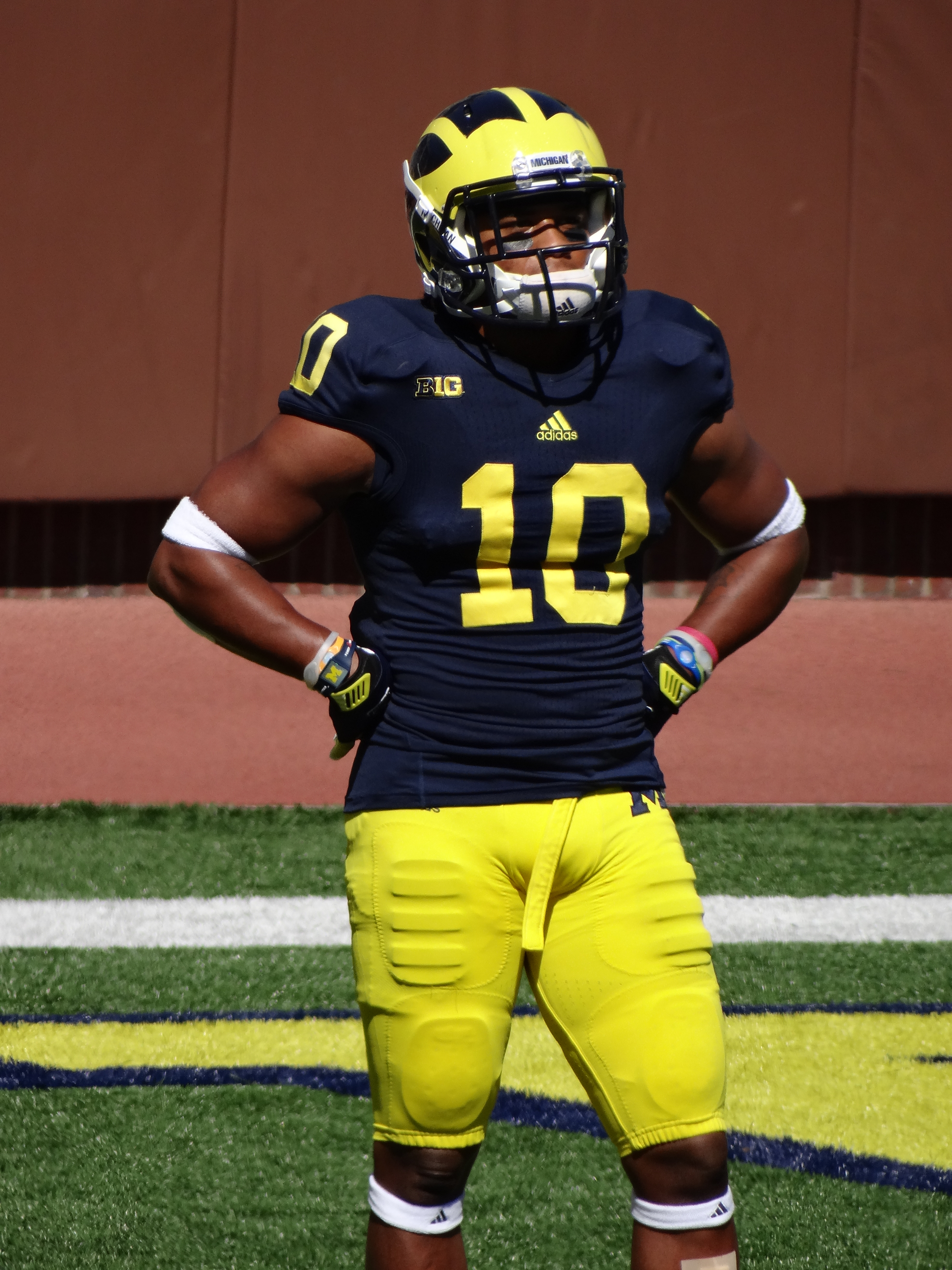 Jeremy Gallon at Michigan Stadium